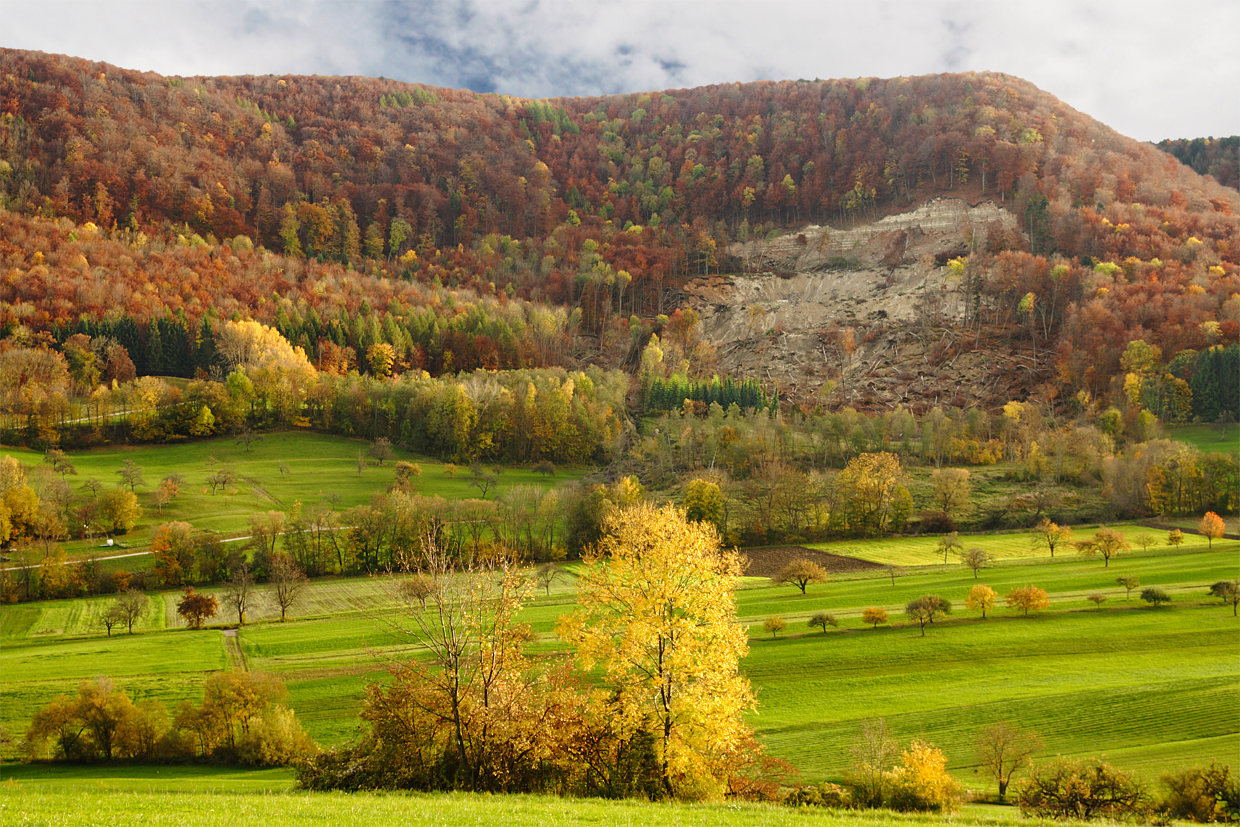 Albtrauf near Talheim (Mössingen), escarpment of strata from Early to Late Jurassic. The landslide happened on May 2nd, 2013, after lasting heavy rains. Wetted, clayish Middle Jurassic layers liquefied, making the slope and rock walls slide. Pertaining erosion, tectonics and weathering moved the Albtrauf at least 19 km since the extinction of the volcano in Stuttgart (Scharnhausen) 15Ma years ago (volcanic pipe contains Late Jurassic rock).